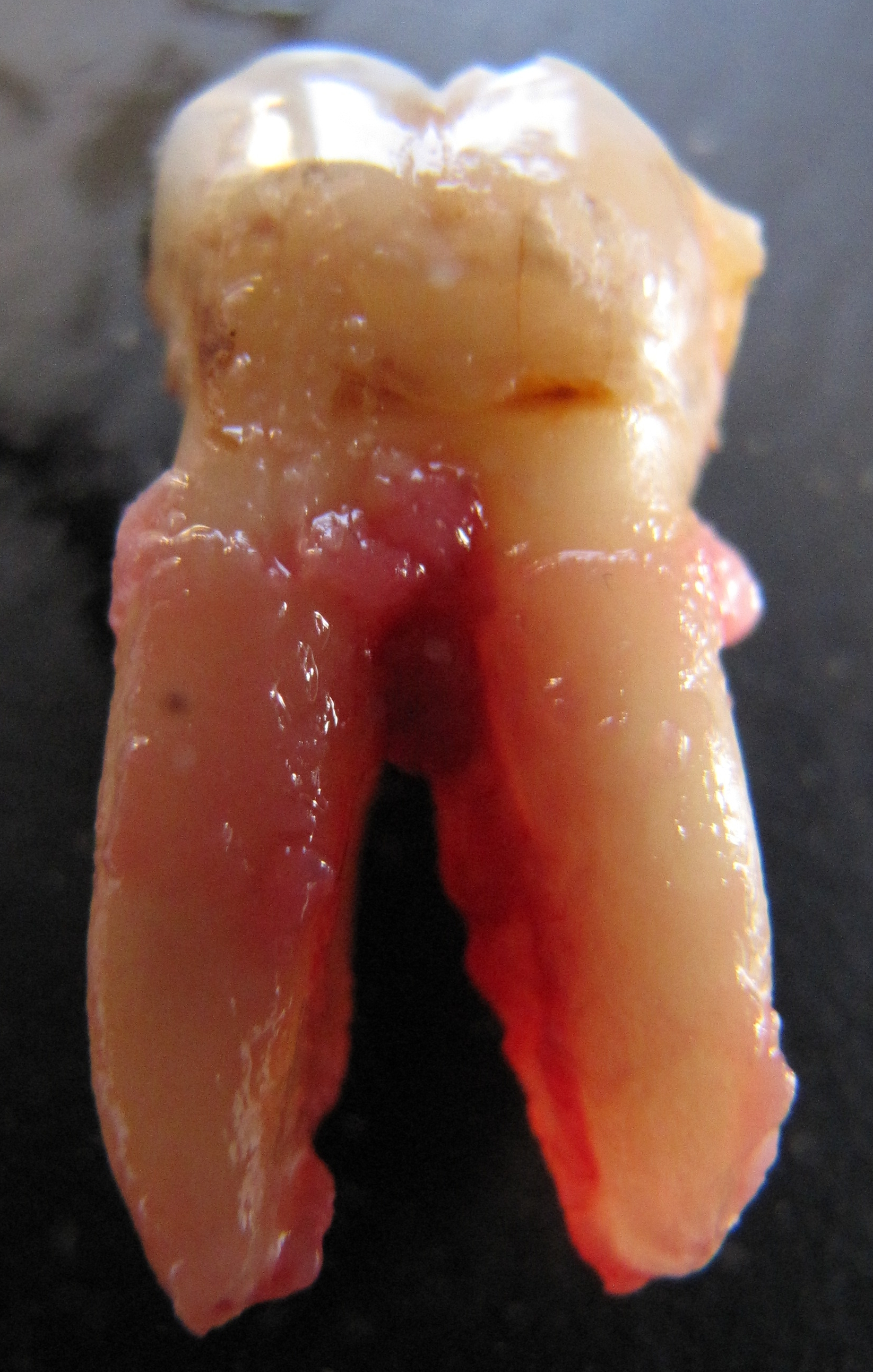 Tooth